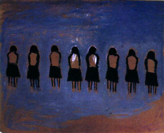 Nadie olvida nada, 1982. painting,Acrylic on wood / 47 1/2 x 60 inches / Artist`s collection